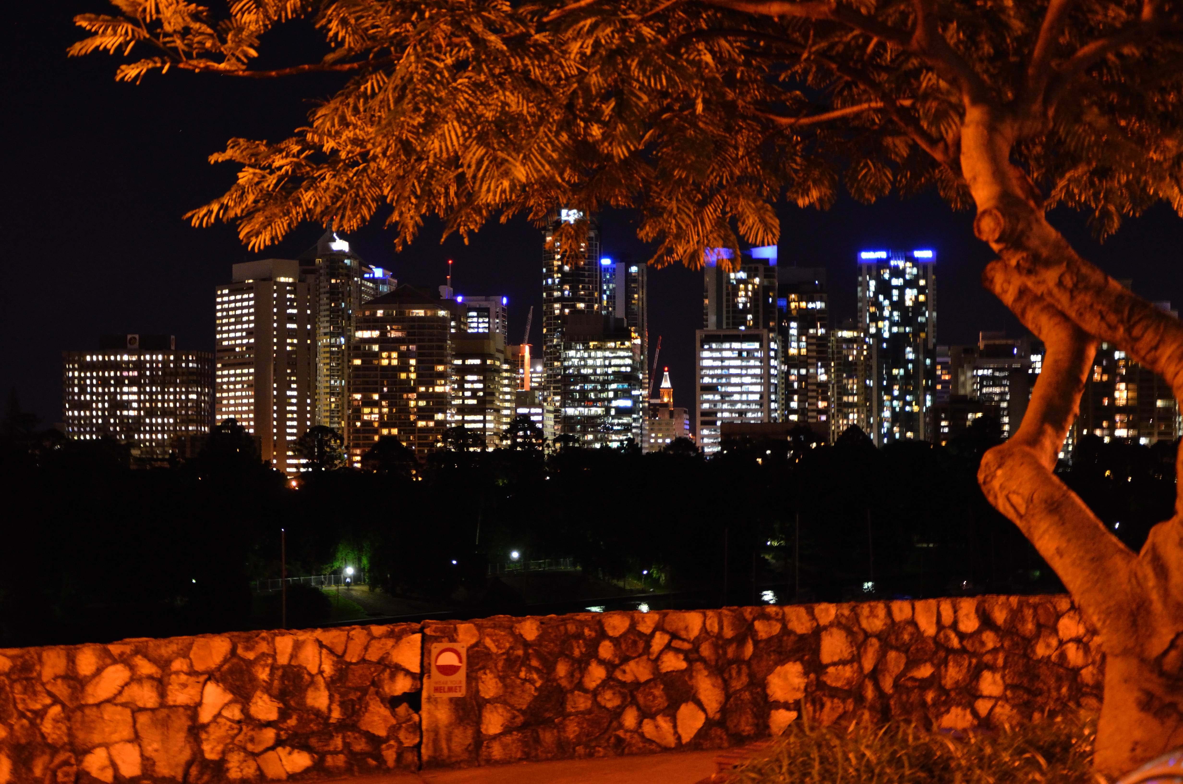 Brisbane's CBD foreshadowed by a tree and the walkway on Kangaroo Point.